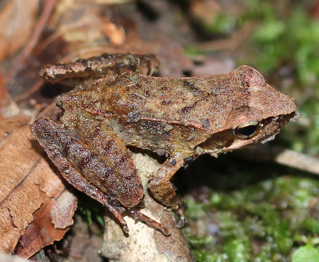 Montane brown frog (Rana ornativentris), in Mount Kiyotaki, Shiga pref., Japan.